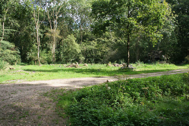 Glade in Treswell Wood This large open area is the meeting point for guided walks and woodland craft demonstrations. Woodland crafts demonstration area can just be seen through the trees to the far right.